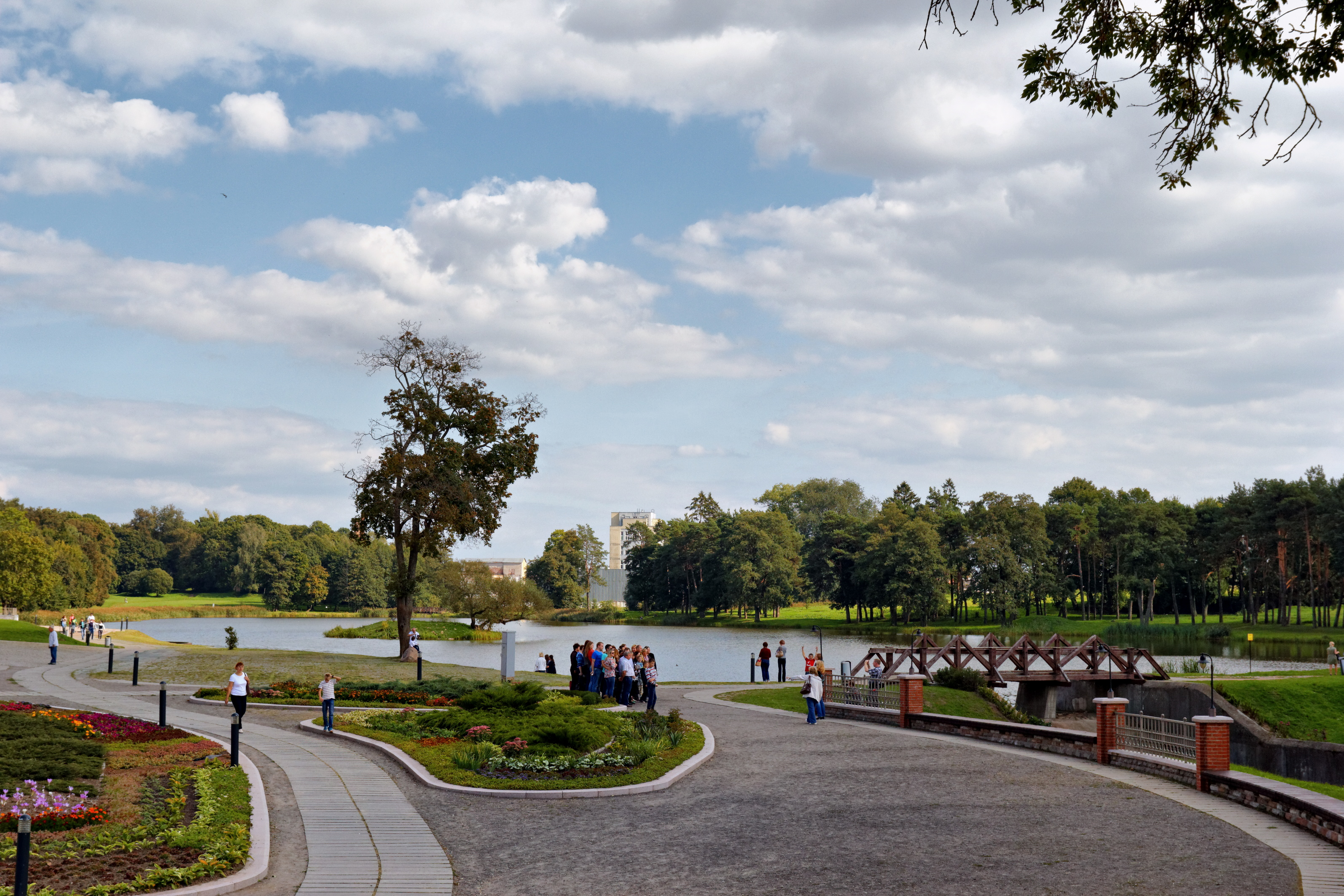 Belarus. Mir. Mir Castle Complex